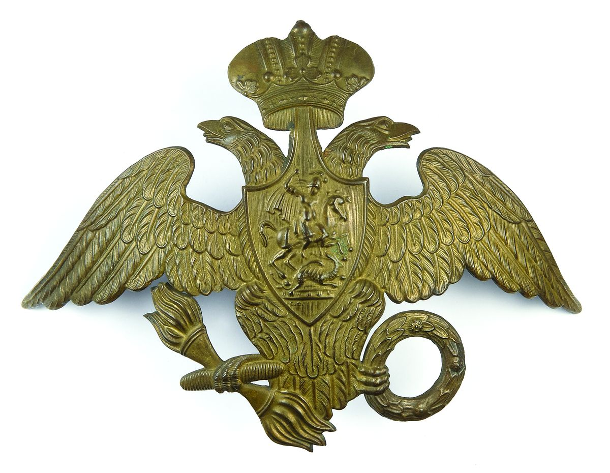 Badge of the Russian Imperial Army